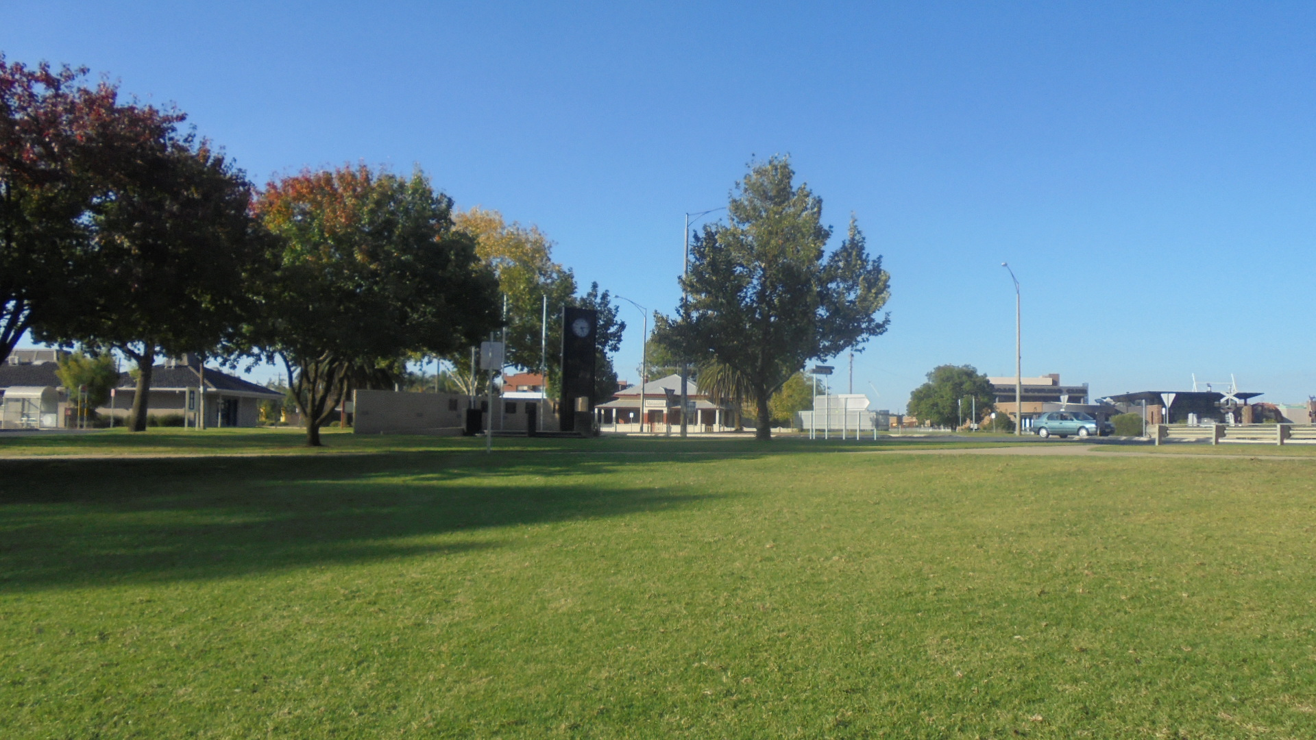 A small park in Moama, NSW